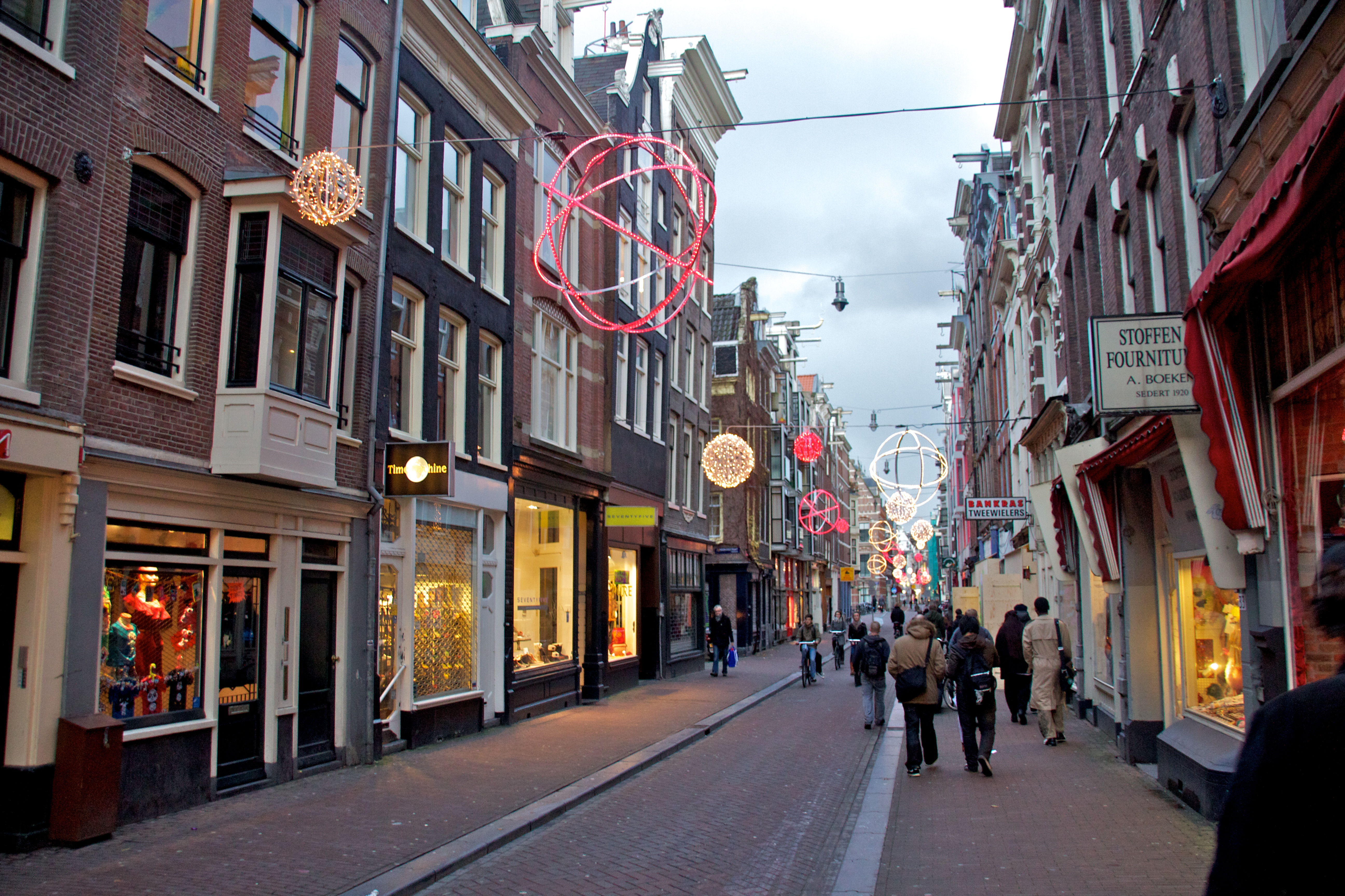 Decorated street in Amsterdam. Taken at GLAMcamp Amsterdam.